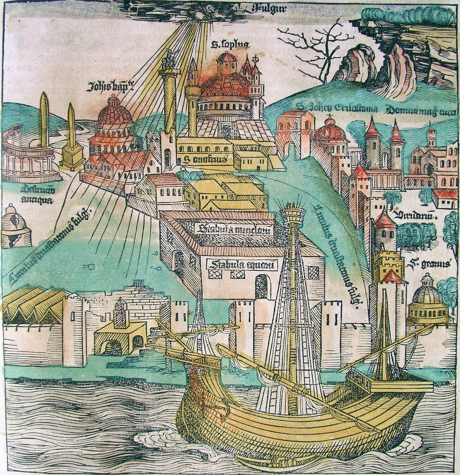 Map from the Nuremberg chronicle (1493). It can be distinguished the column of Justinian in front of Hagia Sophia, next to the column is possibly the Arslan hane (butit could also be the church of St. John the Evangelist at Dihippion: the inscription above the church says "JOHIS BAPTE.", that is, St. John the Baptist).